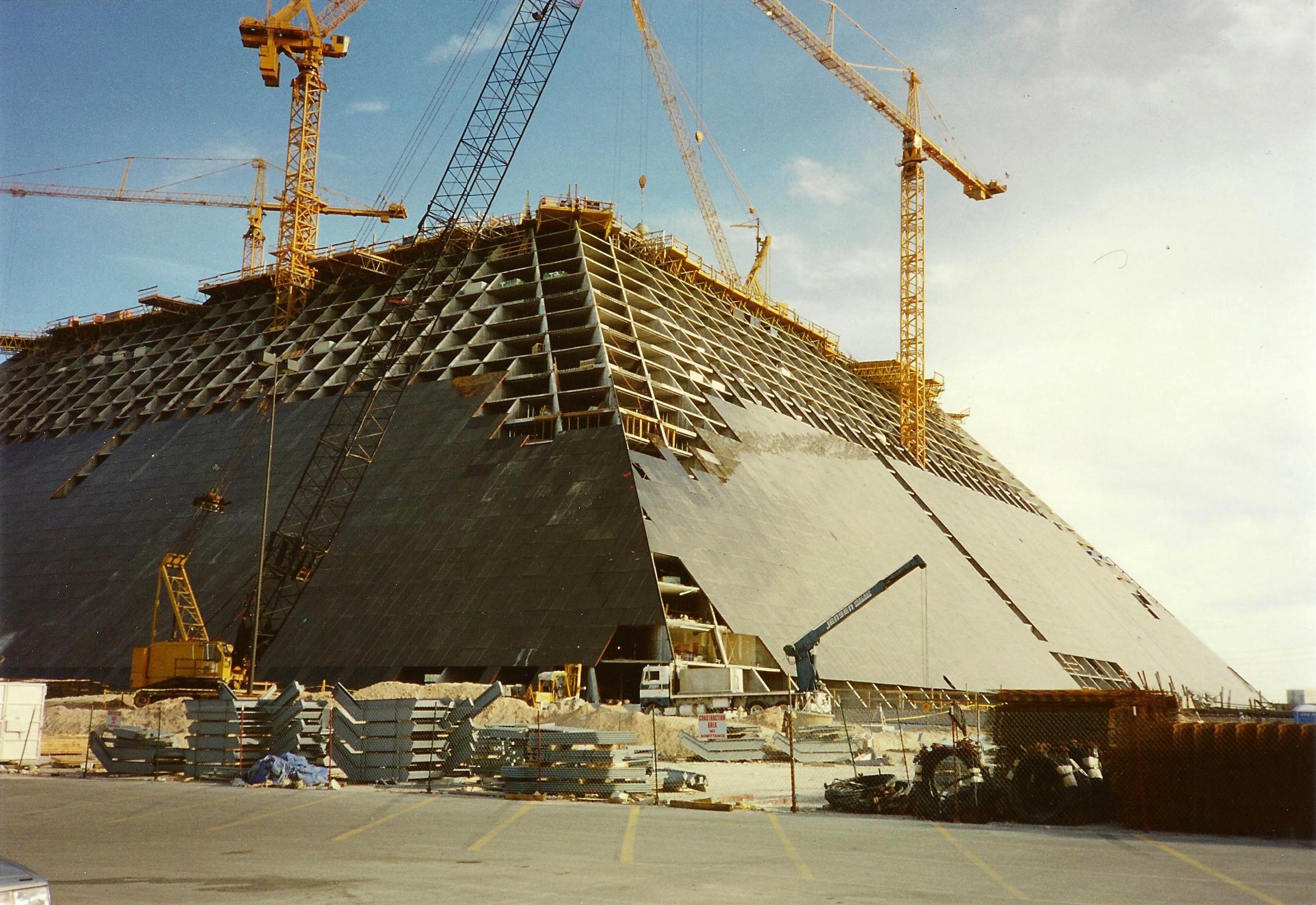 Construction site of the Luxor Las Vegas Hotel and Casino. Own scan of own paper print. Photo taken in April 1993.